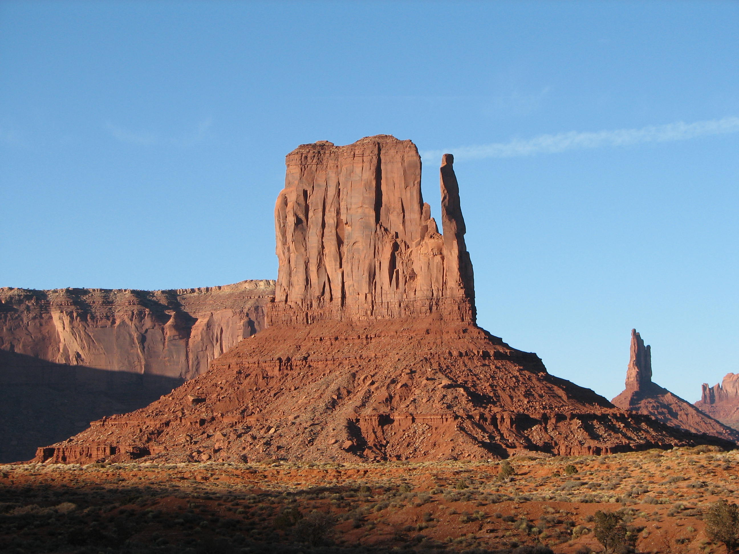 West Mitten Butte viewed from John Ford's Point in Monument Valley, Arizona, USA. The (vertical)-De Chelly Sandstone, sits upon 'skirts' of the Organ Rock Formation.